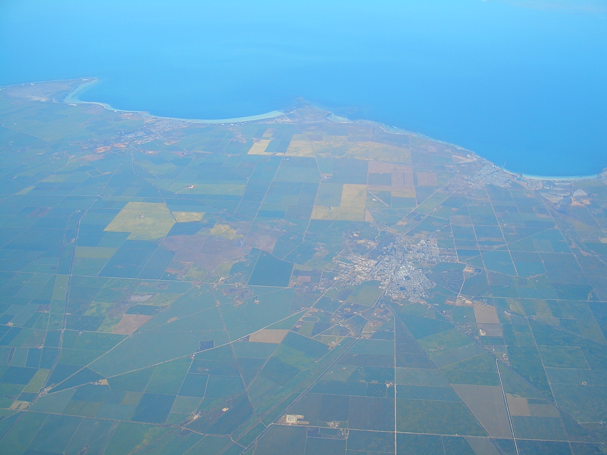 South Australia from the air (Darwin-Adelaide flight. The Copper Triangle area (York peninsula), looking roughly west, toward Spencer Gulf. Kadina is in the center (inland), Wallaroo is roughly in the center right on the coast, and Moonta, center left, also on the coast.